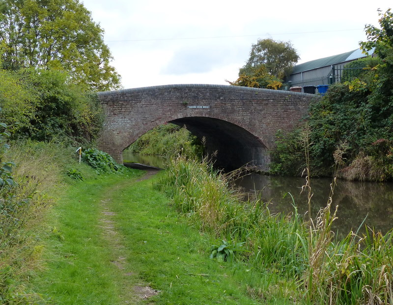 Photograph of Tamhorn House Bridge,an accommodation bridge crossing the Birmingham and Fazeley Canal, Staffordshire, England